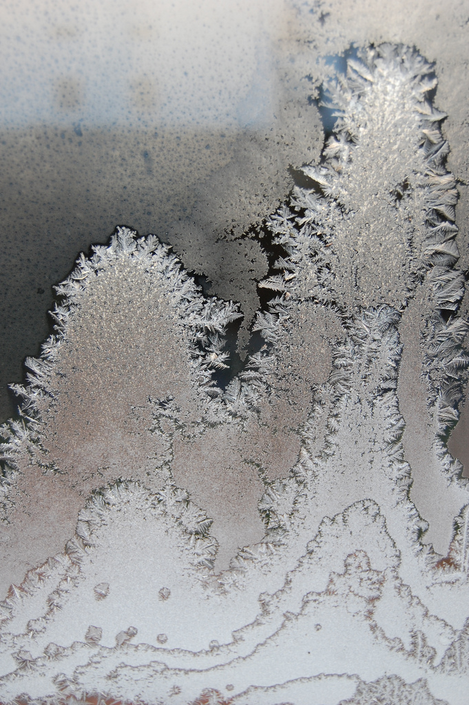 free for your creativity - please add a link of your work at this picture - many thanks and have fun :)*